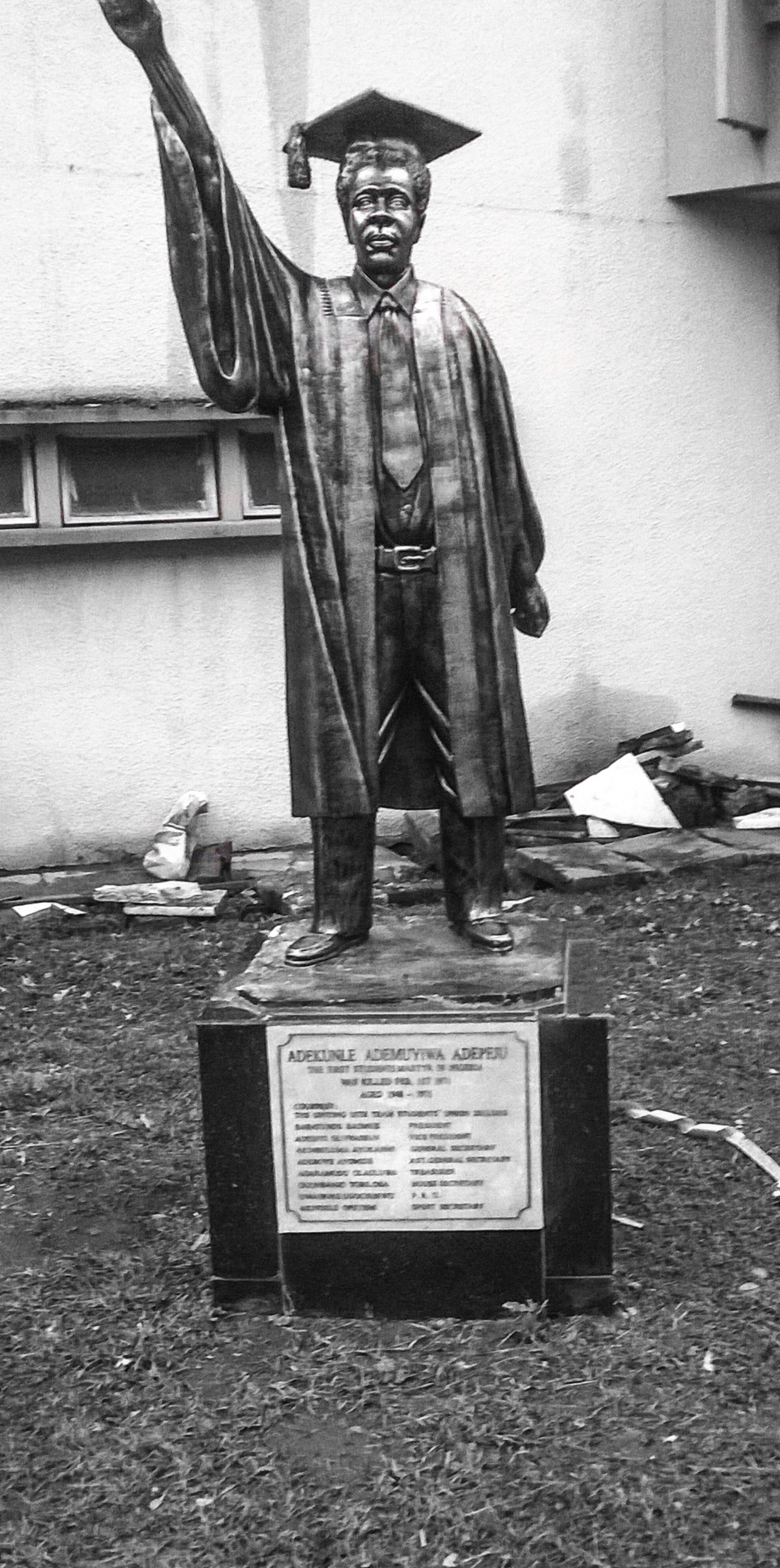 The first student martyr in Nigeria Kunle Adepeju was shot in February 1971. Pictured here is a statue of him This is an image from Nigeria